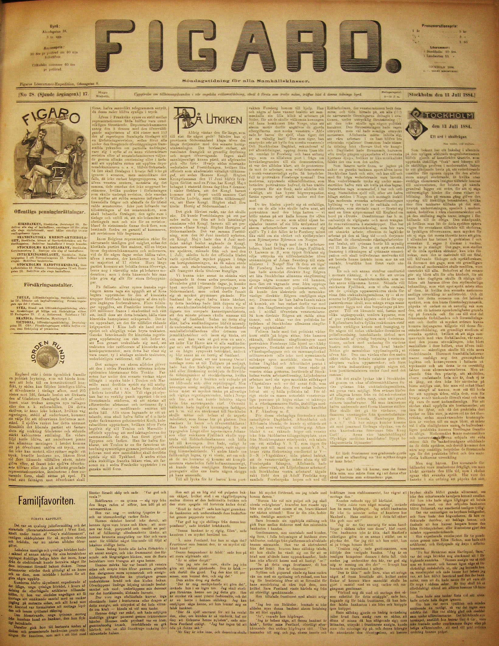 Frontpage of the swedish magazine Figaro, july 13 1884.